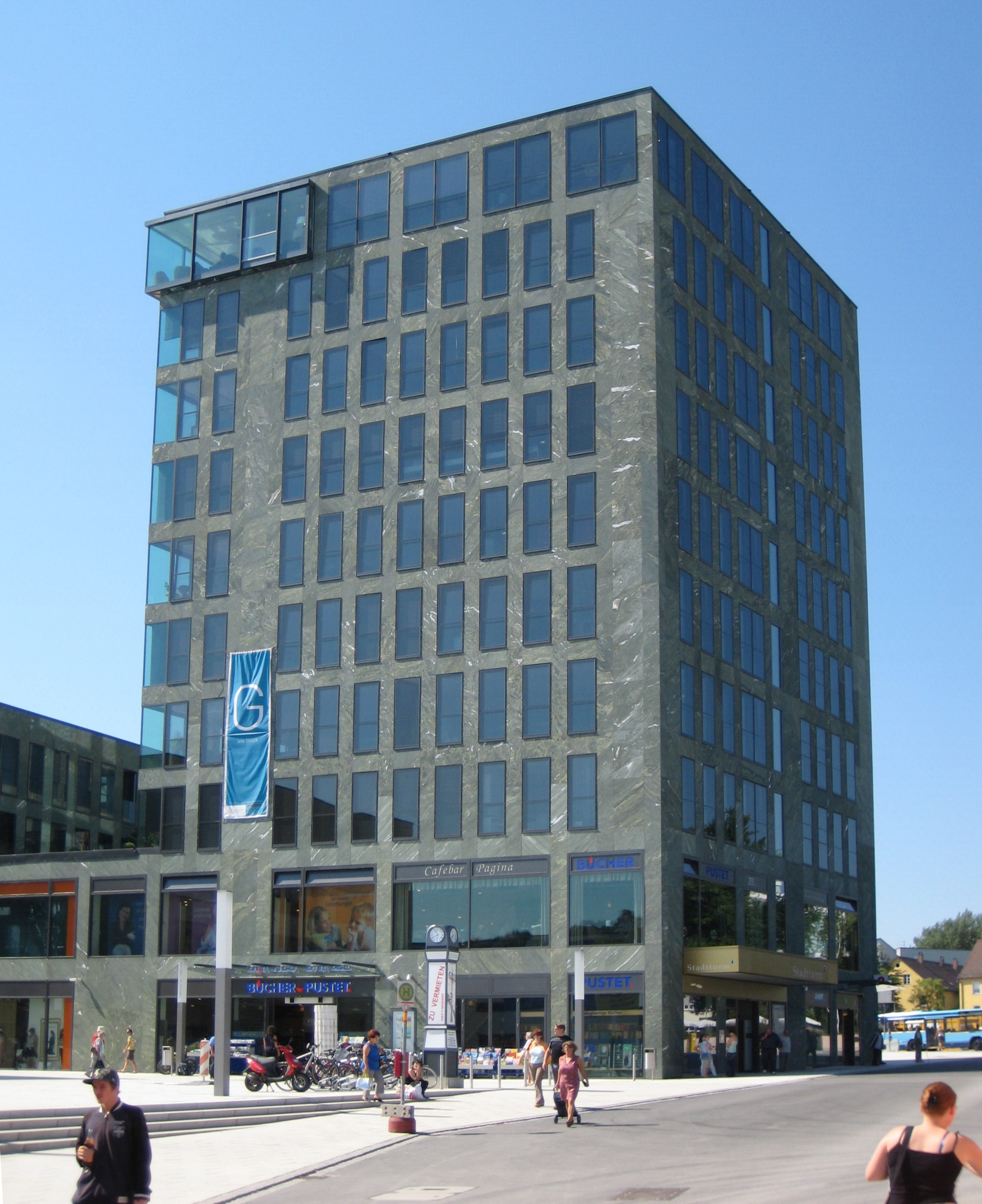 City tower, Passau